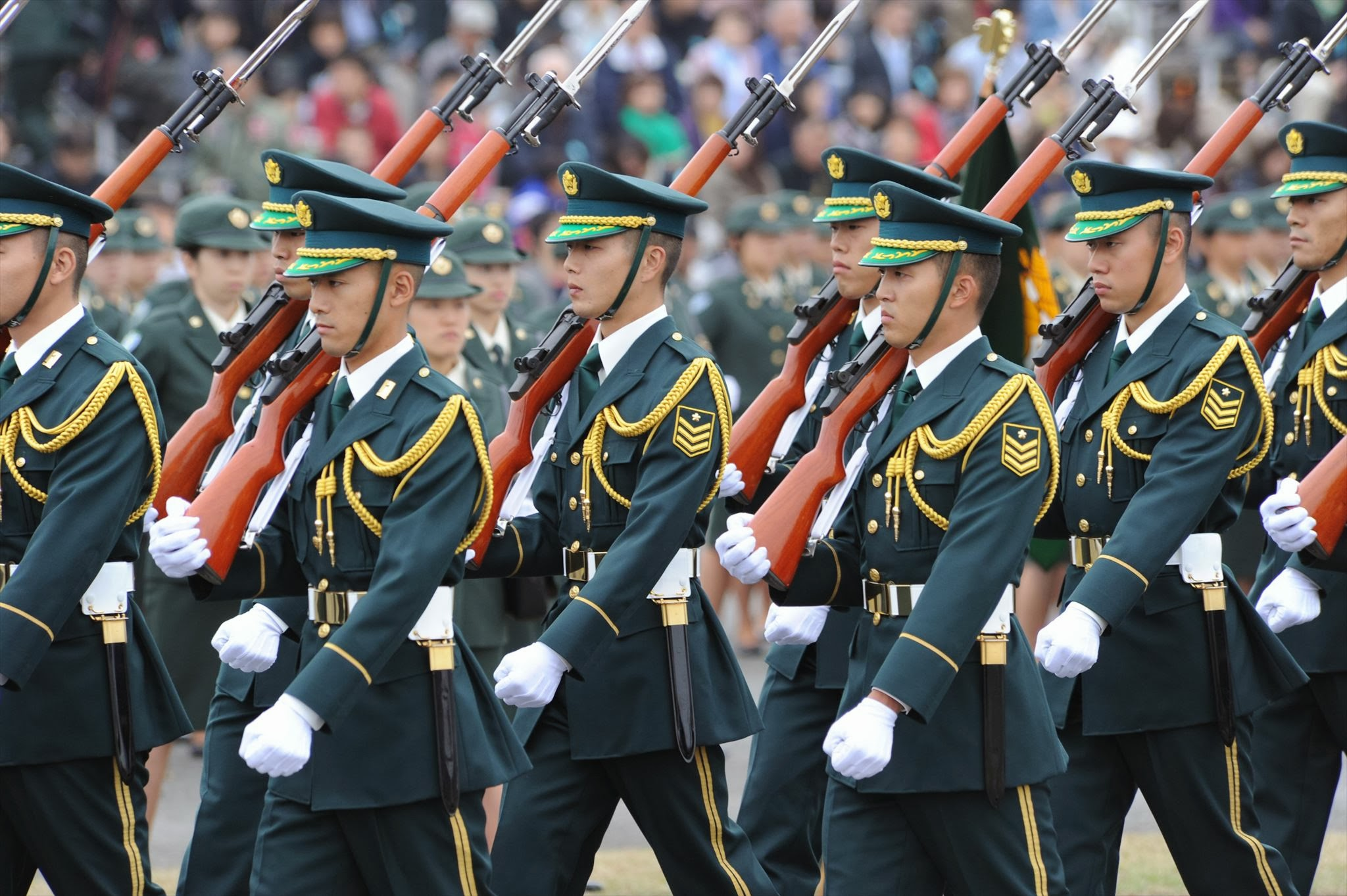 Title 05_006_R.JPG Album 自衛隊記念日 観閲式(Parade of Self-Defense Force) 平成22年度自衛隊記念日 観閲式(Parade of Self-Defense Force)